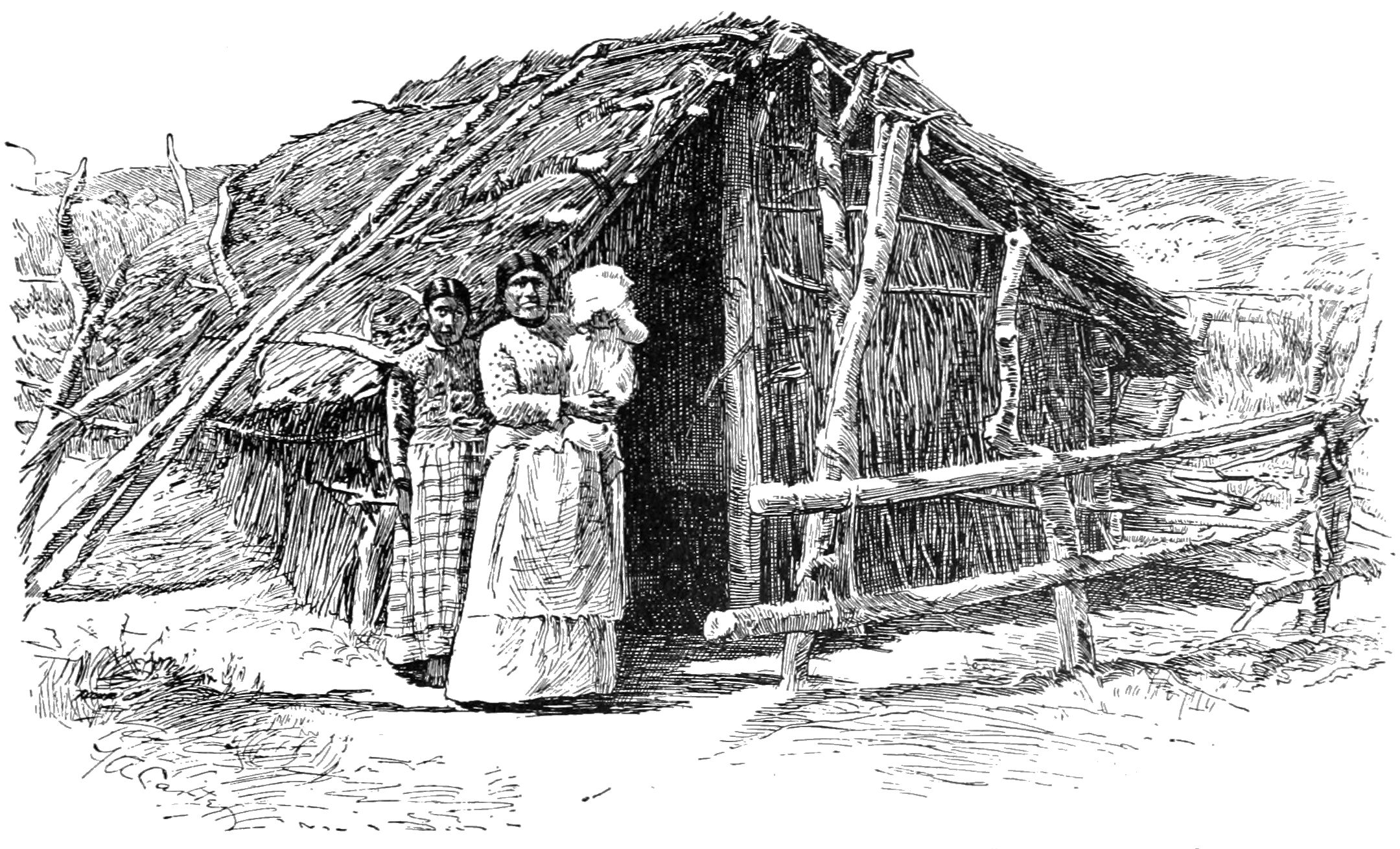 Modern hut of mission Indians in Coahuila valley